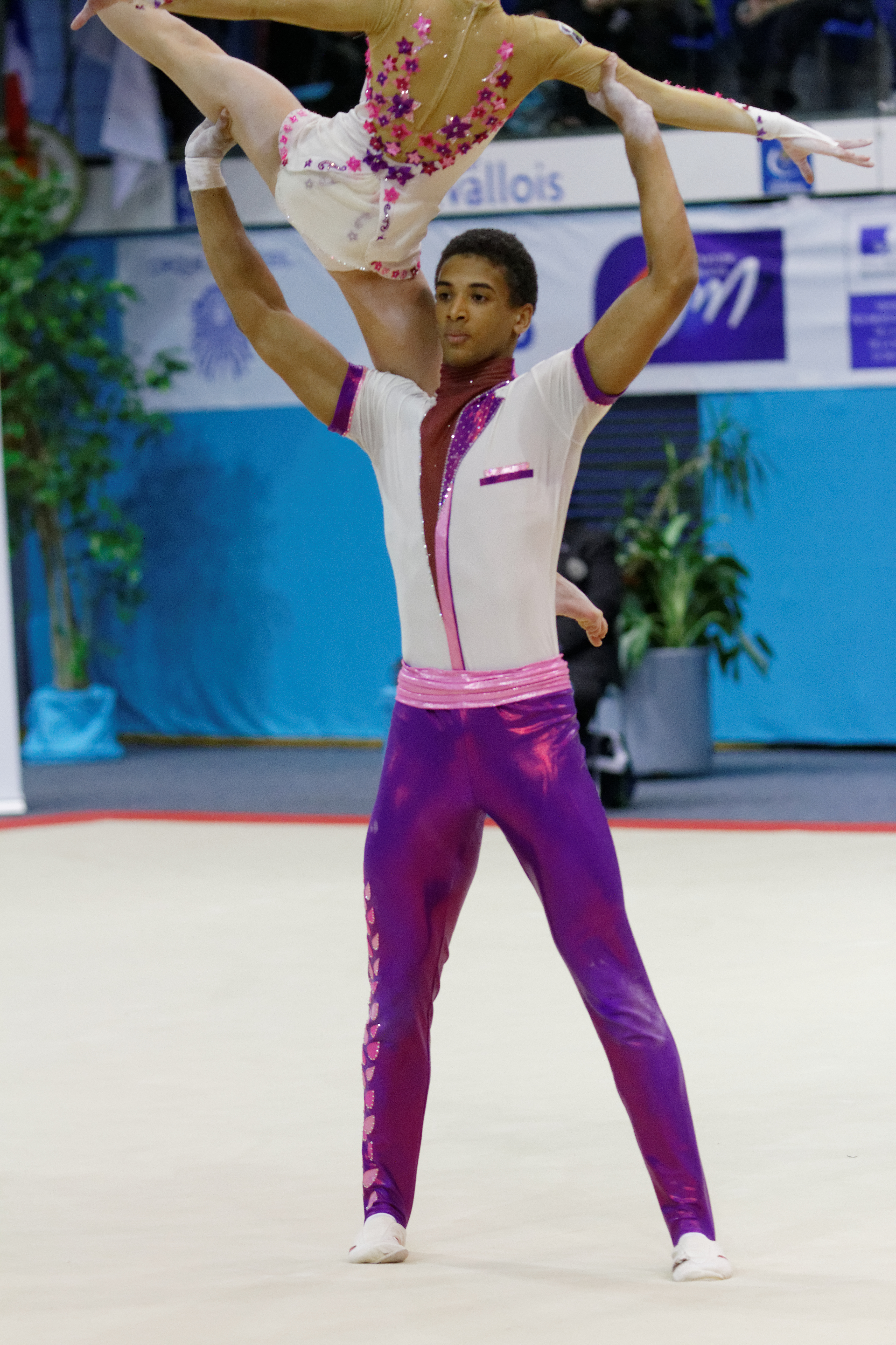 2014 Acrobatic Gymnastics World Championships, 10th-12 July, Levallois-Perret, France. Qualifications: mixed pair. Belgium .